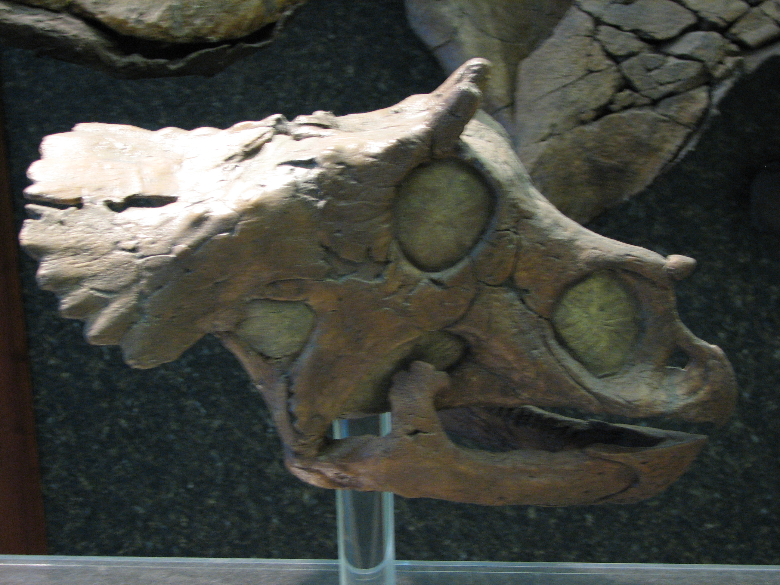 Baby Triceratops skull on display at the University of California, Berkeley in VLSB